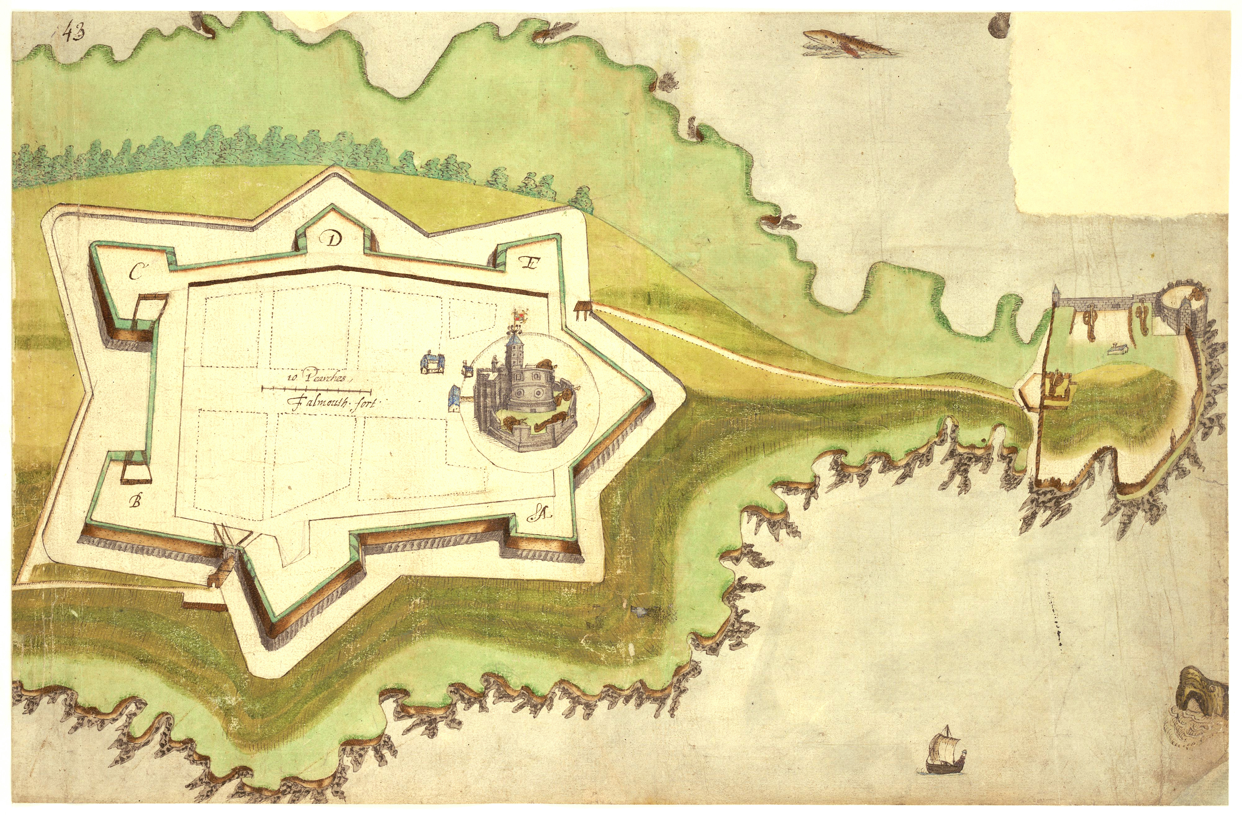 A coloured plan of Falmouth Fort (Pendennis Castle); drawn temp. Elizabeth Publication Details: ca. 1590-1598.